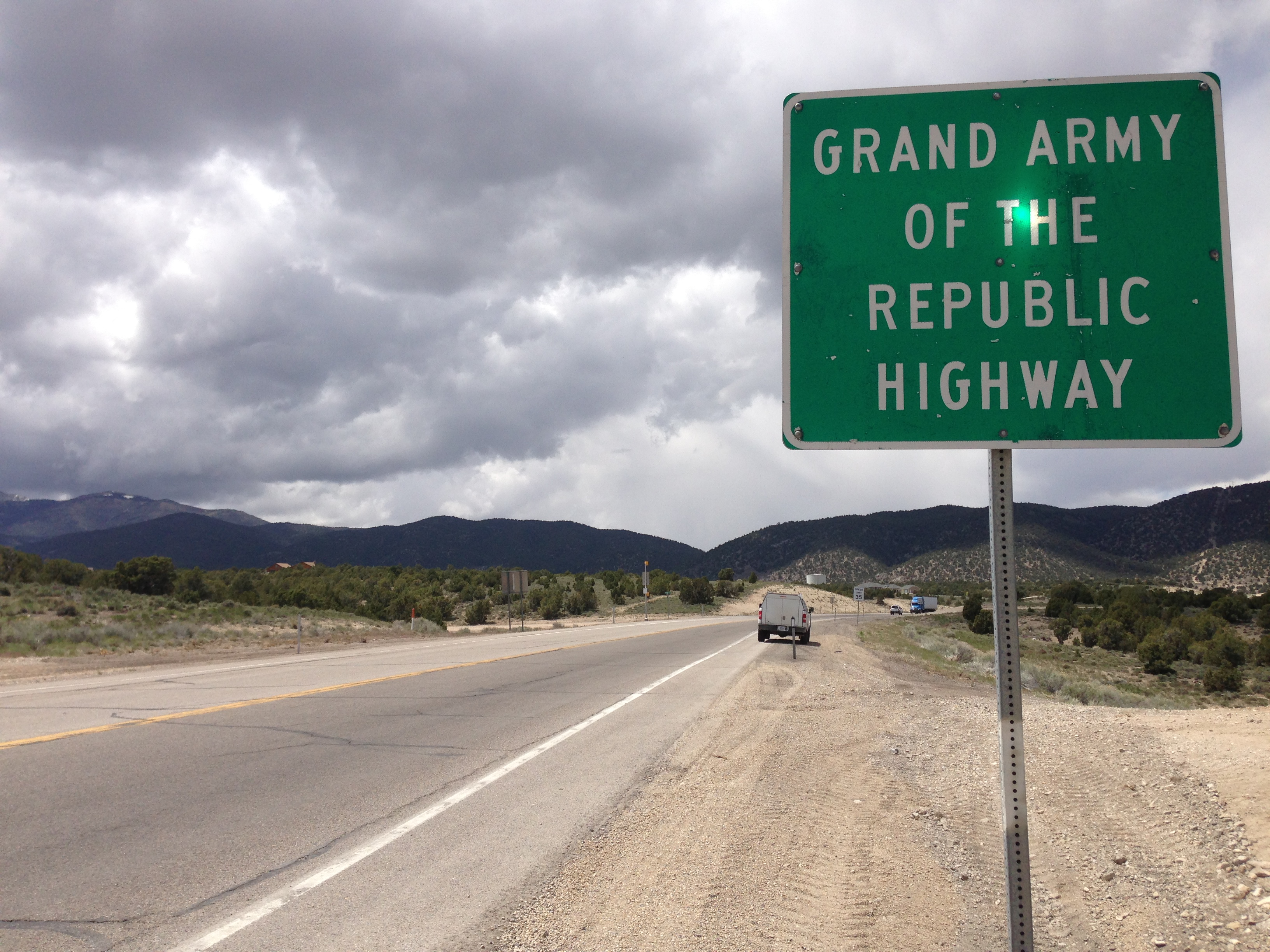 Sign for Grand Army of the Republic Highway along U.S. Route 6 westbound in Ely, Nevada